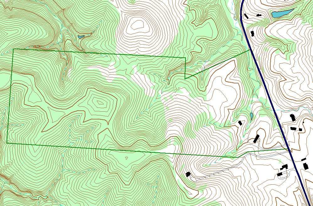 Example of layers used in GIS work. This map is of an Athens County, Ohio property, and was made using ArcView GIS 3.3, by John Knouse